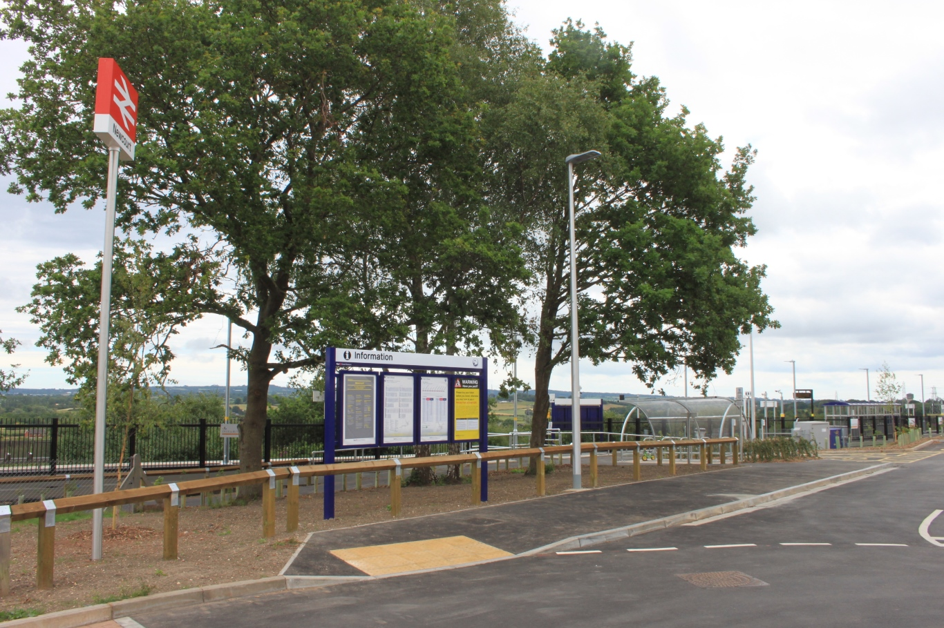 Exeter's Newcourt station is still shiny and new, but it is just three weeks since it opened in June 2015.